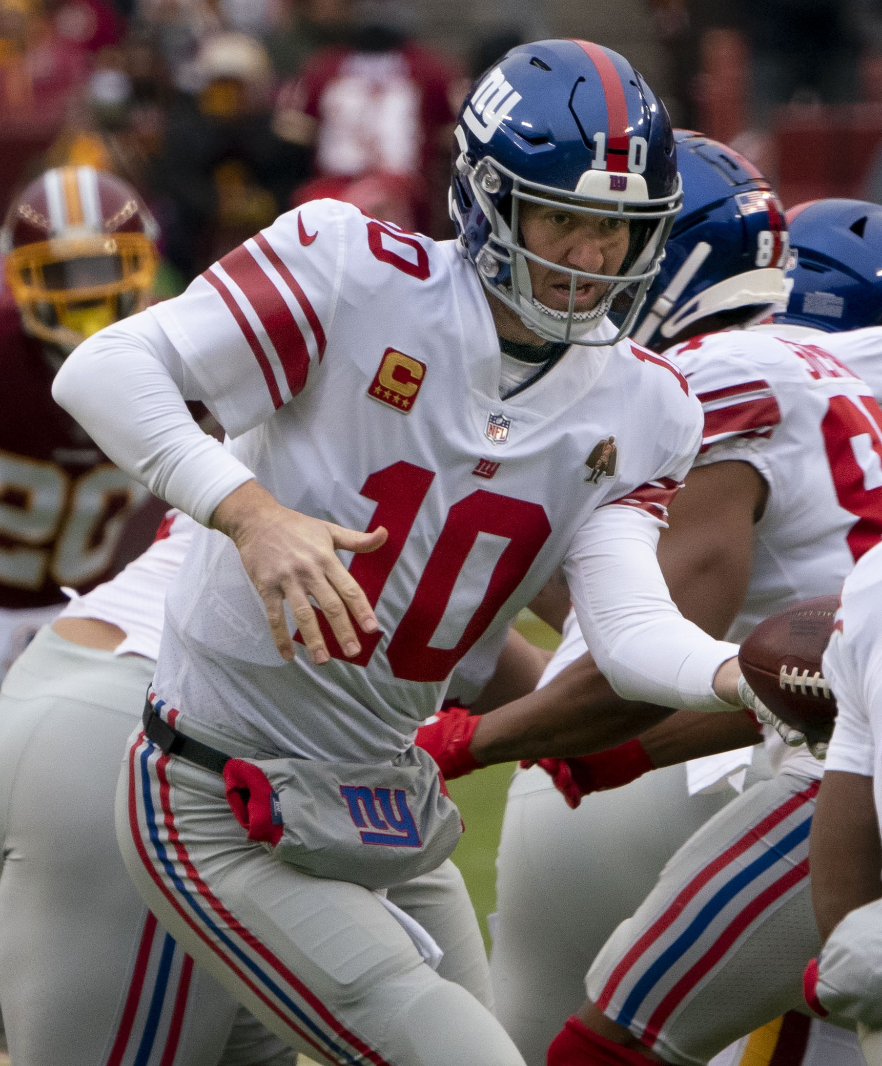 Manning in 2018